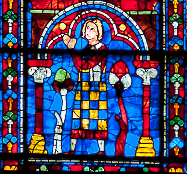 Chartres Cathedral, South Window (Bay 122), Detail